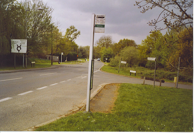 Gaston Gate, NW of Cranleigh in Rowly. A fairly busy stretch of B2128 country road. There is a car saleroom hidden behind the trees on the left. The bus stop is served by routes 53 and 63, as well as some school services.